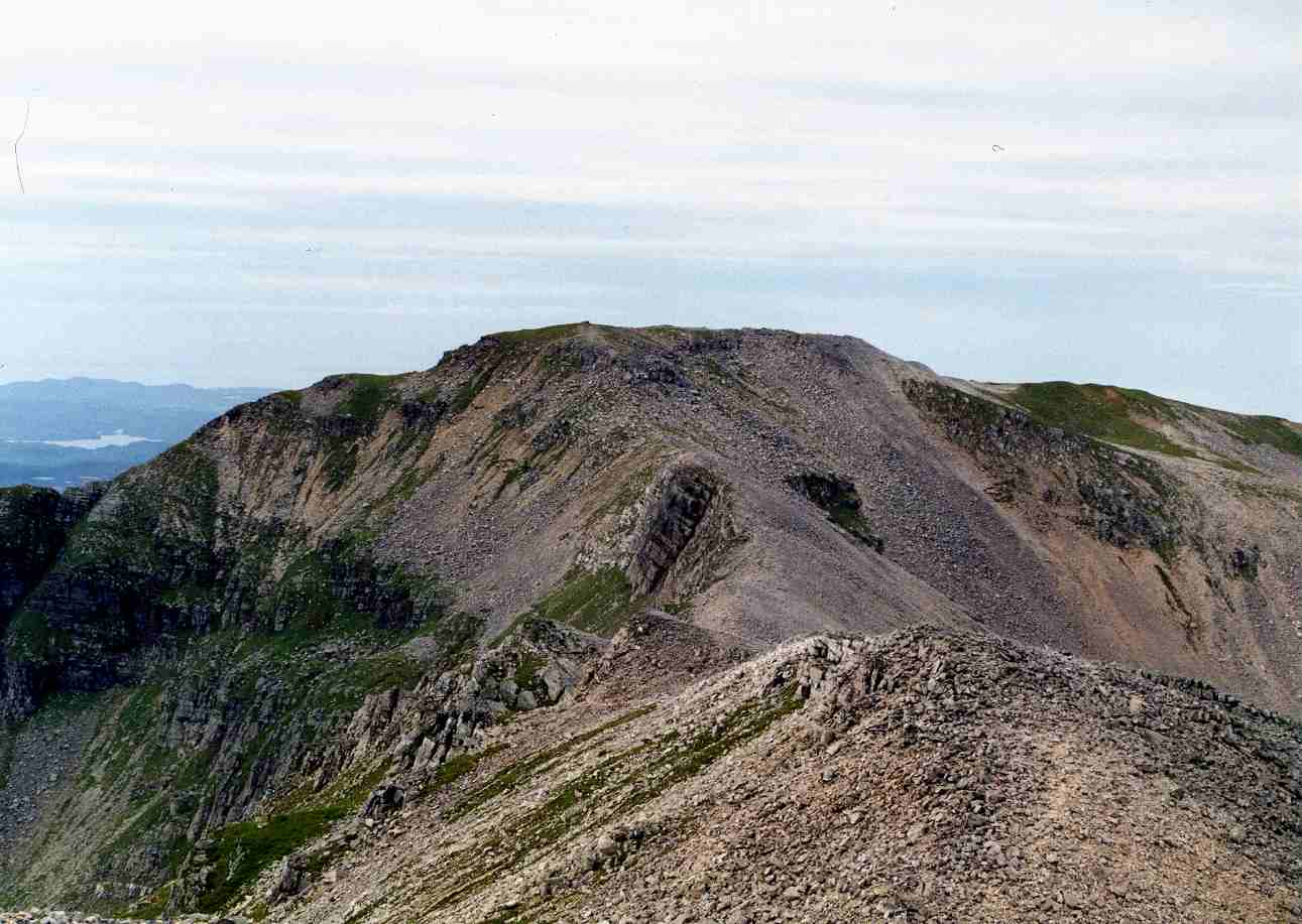 Personal picture taken by Mick Knapton